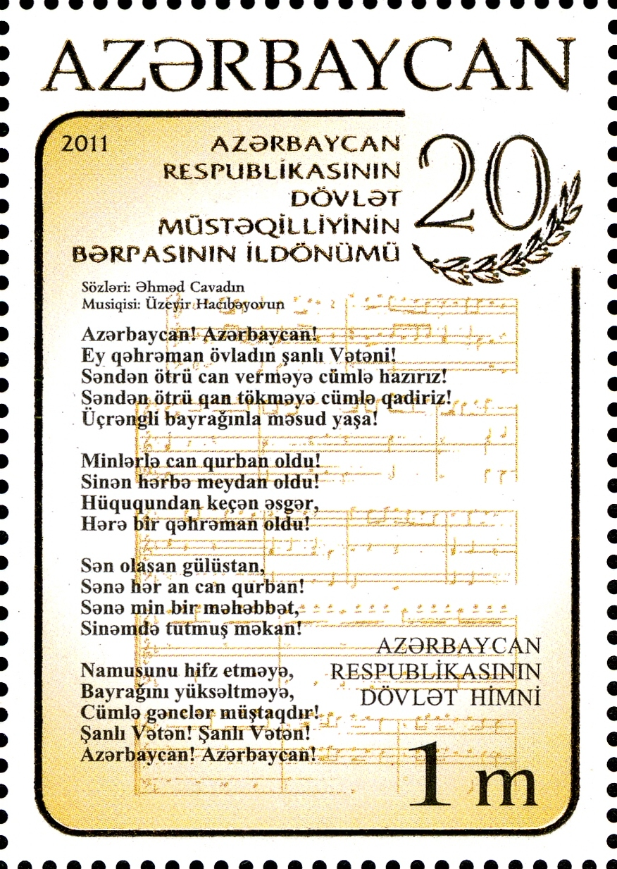 The 20th. Anniversary of the Restoration of State Independence of the Republic of Azerbaijan.